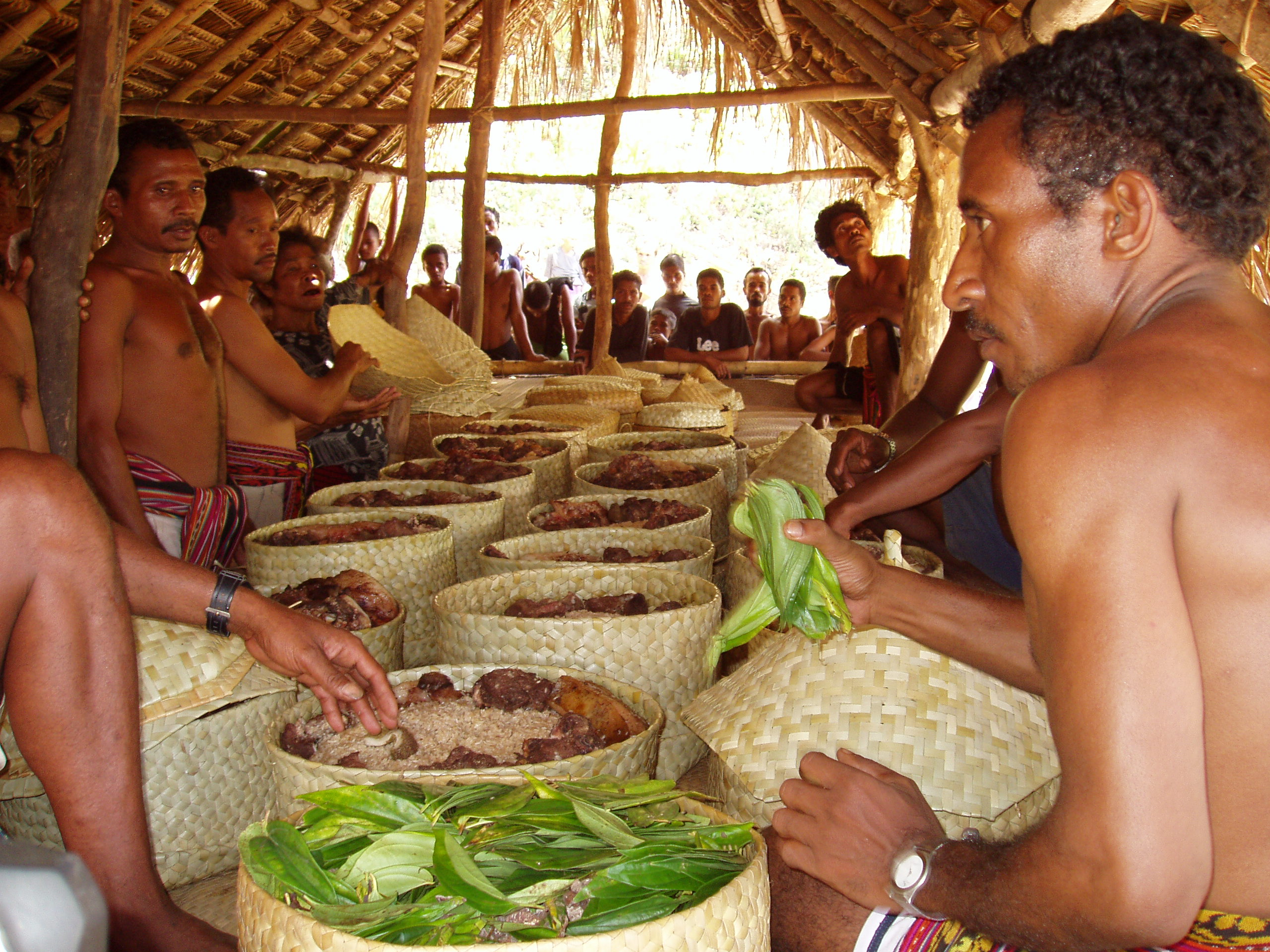 Baha Liurai. This is the offer which now called 'Iluwai Malu bu' (the spit and the bettle nut). Spit symbolize the blessing of the ancestors and the land. Malu bu = the left over of the betel-nut of the ancestors (male and female ancestors are all important here). Every single member of the village will receive their share. Those who live overseas also counted here.